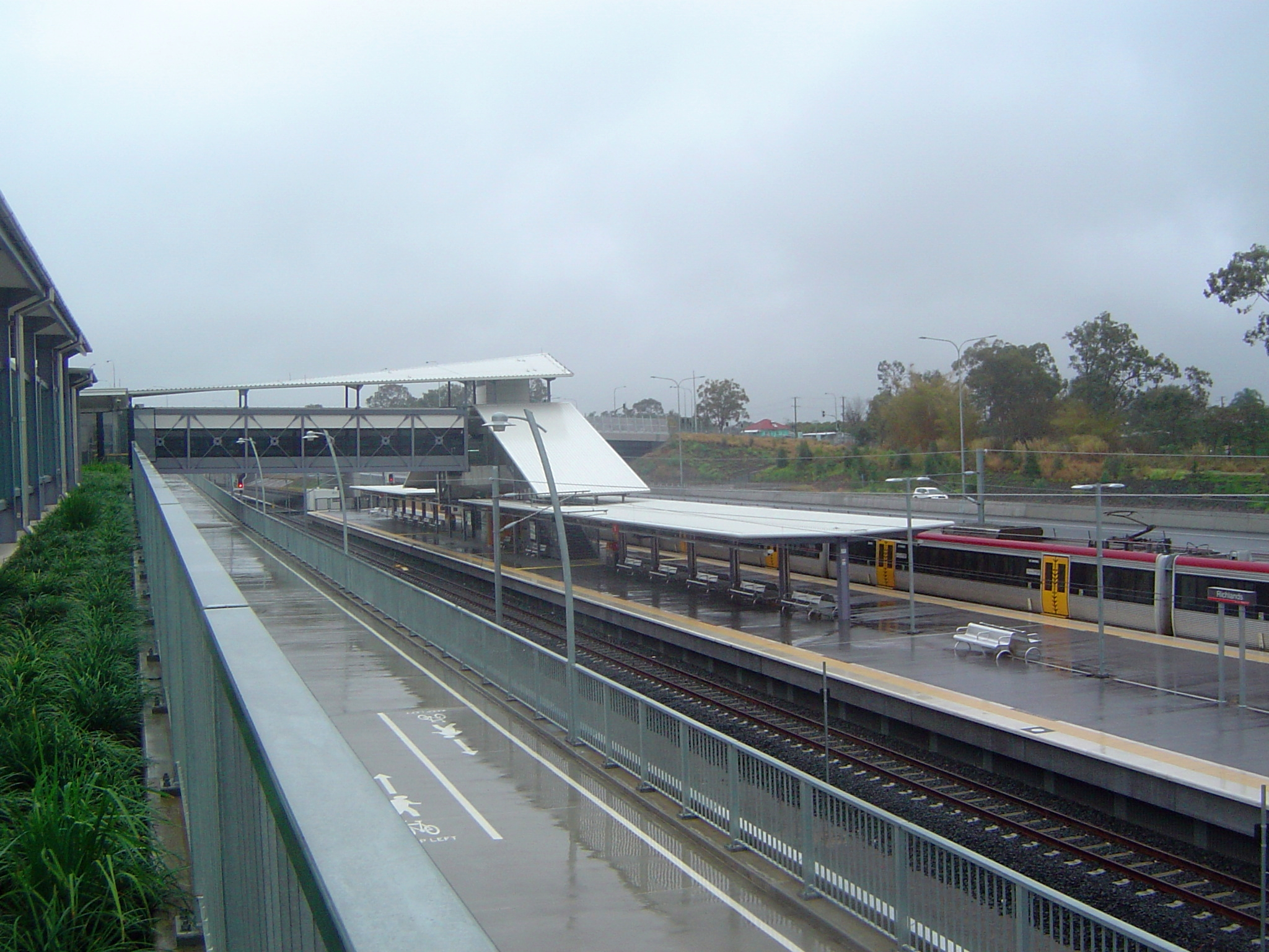 Richlands railway station seen from Bus Stop B